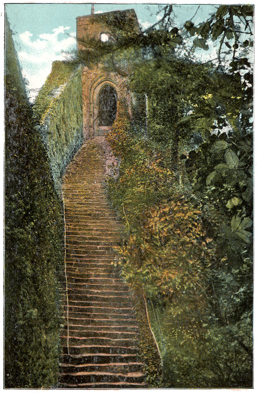 STEPS TO THE KEEP, CARISBROOKE CASTLE.—As a memorial of a bygone age how interesting are the steps to the keep, the last resort of the besieged, from which it would be difficult to dislodge them, without great loss. The well which furnished them with water is now dry, but can still be seen. The battlements furnish the visitor with a magnificent view of the country in every direction. The steps, seventy-two in number, are somewhat steep. The walls are covered with climbing plants. Shelter is afforded by trees and bushes, while access is given at the back of the ancient buildings in the Castle, to facilitate escape in case of surprise.